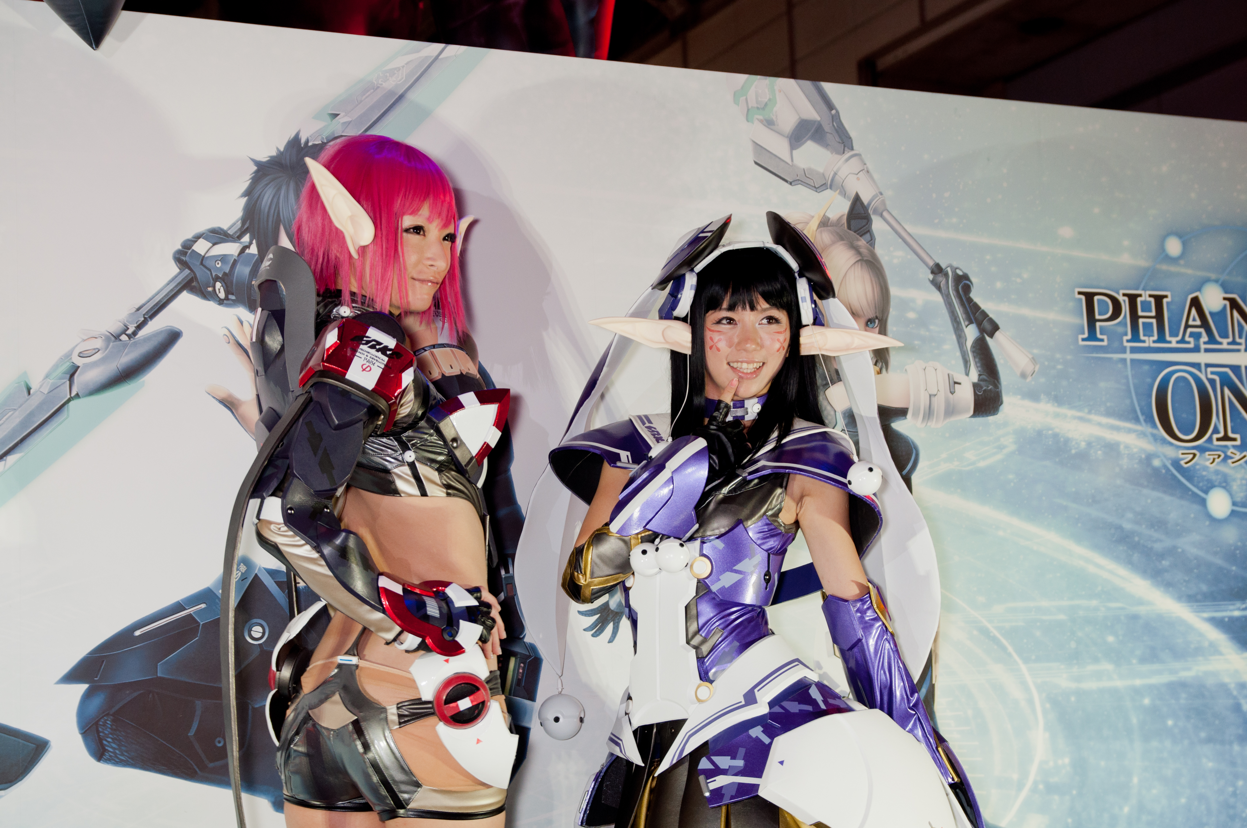 Cosplay models of "Phantasy Star Online 2" at Tokyo Game Show 2012.